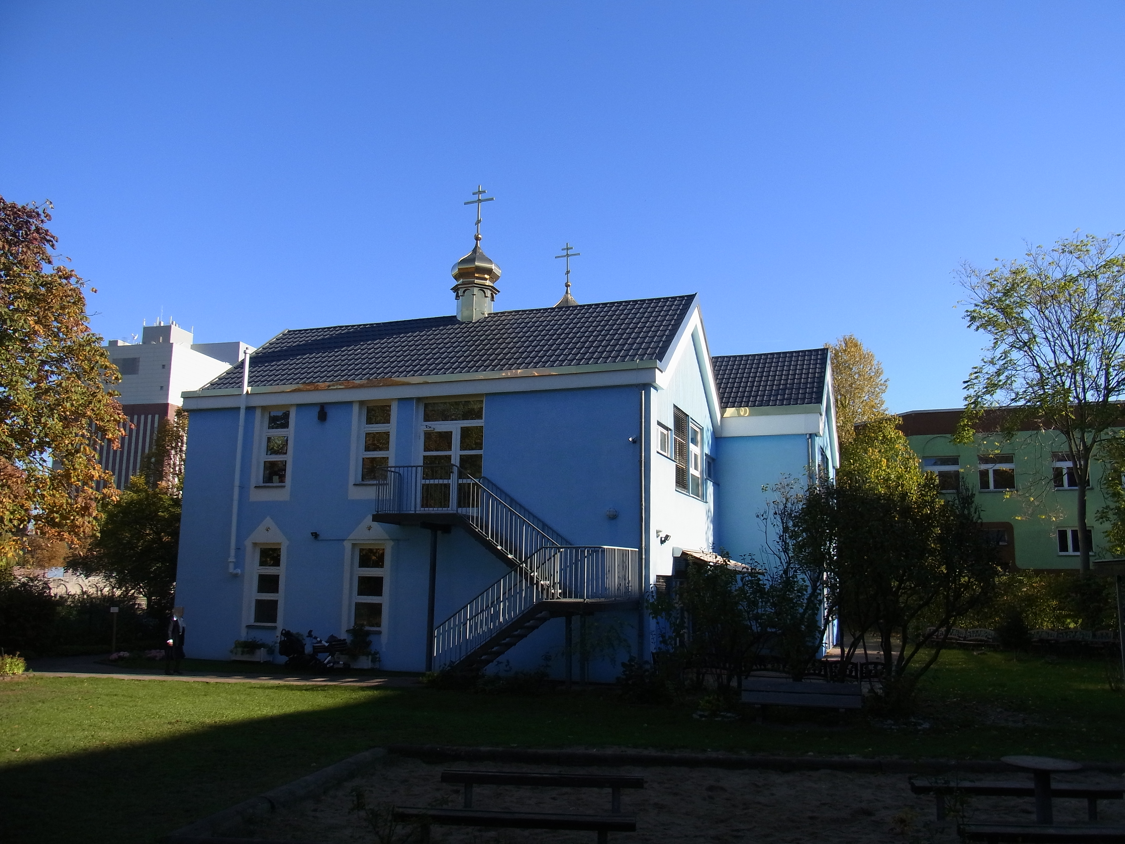 Berlin-Charlottenburg, Russian orthodox church (Church of the Intercession of the Holy Mother)